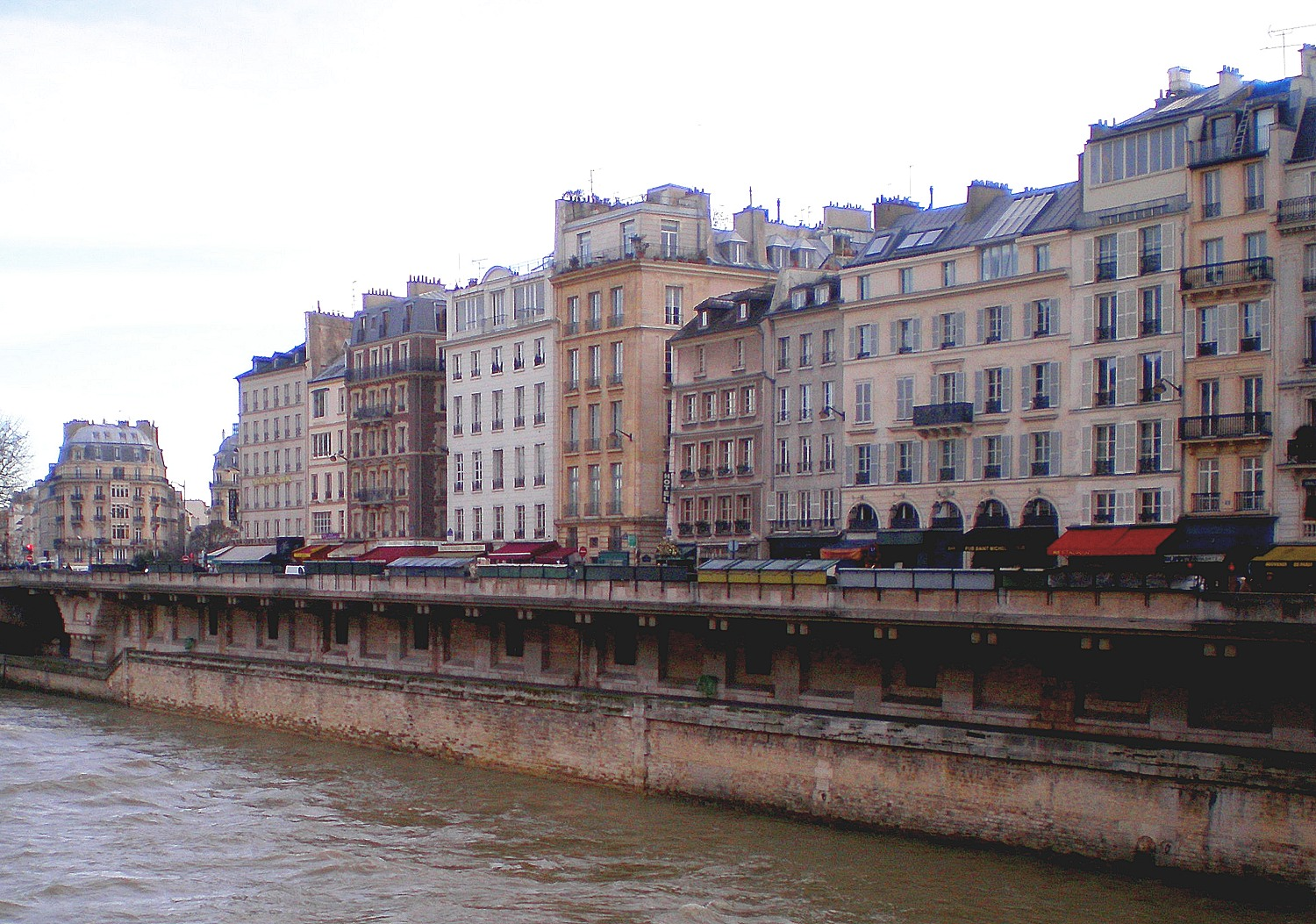 Quai Saint-Michel, Ve arrondissement, Paris, France.